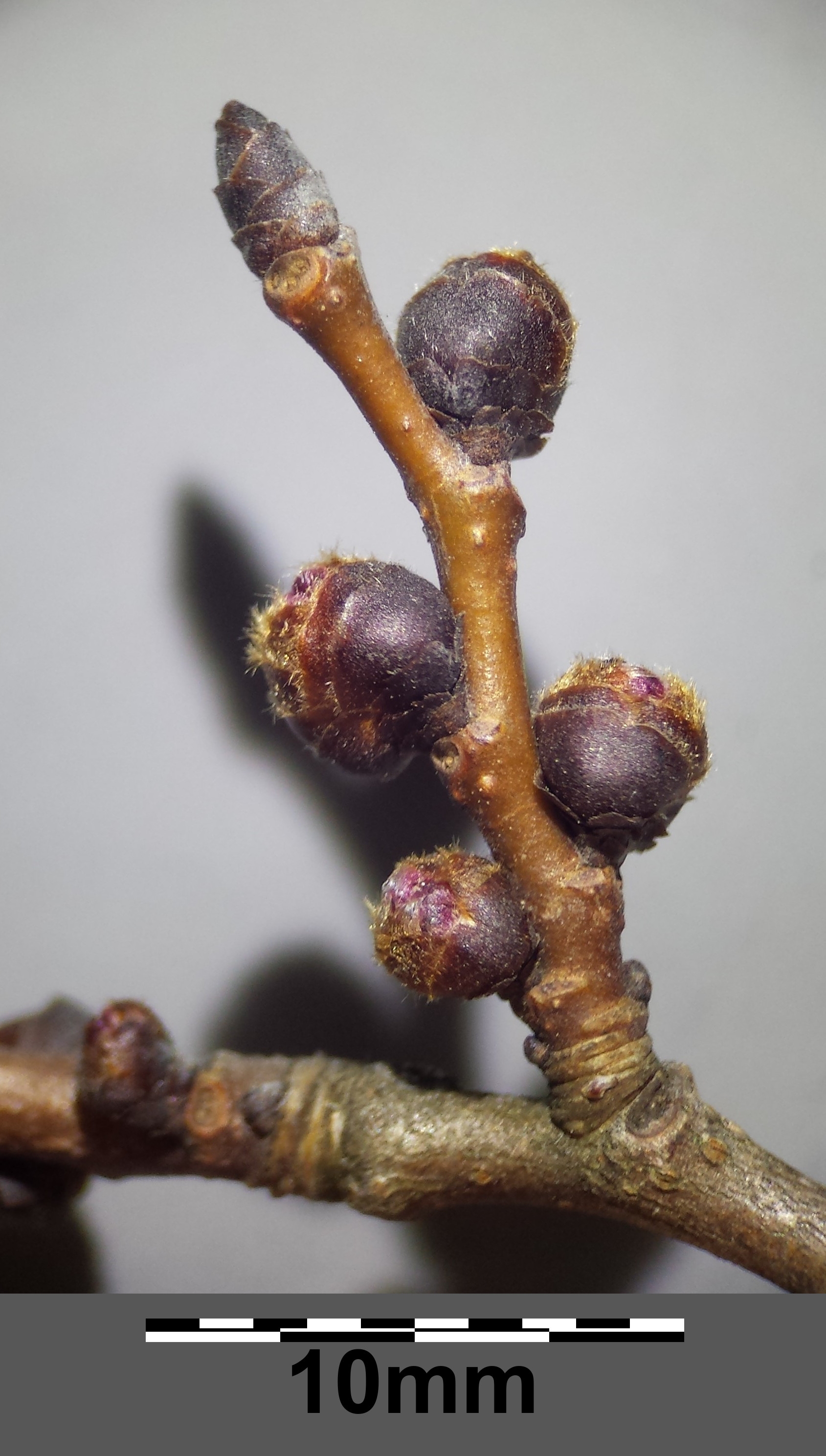 Branch with acute bud of leafy shoot (above) and round buds of inflorescence (below) Taxonym: Ulmus minor (subsp. minor) ss Fischer et al. EfÖLS 2008 ISBN 978-3-85474-187-9 Location: between Michelberg and Steinberg near Niederhollabrunn, district Korneuburg, Lower Austria - ca. 300 m a.s.l. Habitat: semi-dry grassland